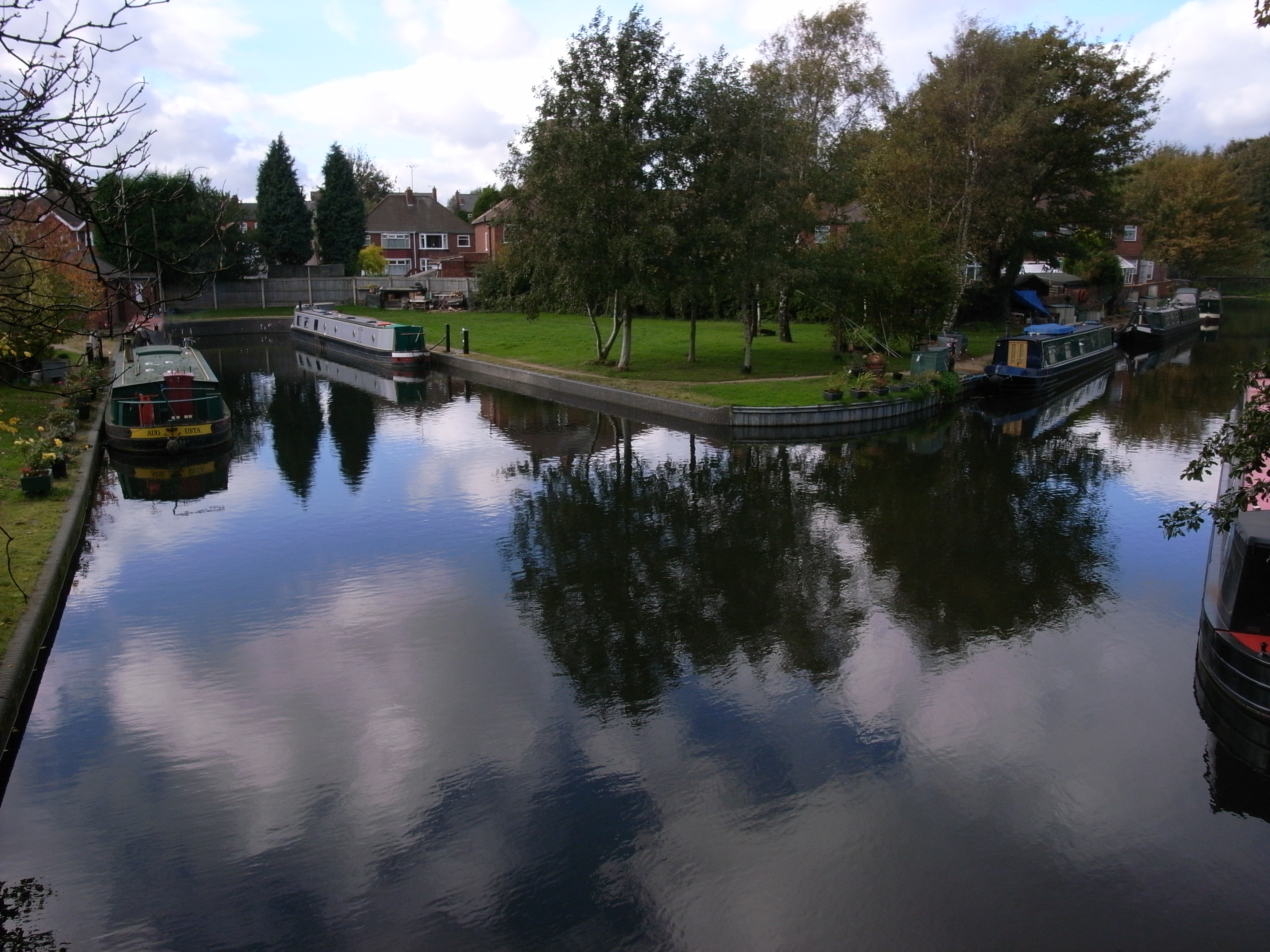 Canal moorings in the private Ocker Hill Tunnel Branch off the Walsall Canal (part of the Birmingham Canal Navigations near Ocker Hill in West Midlands (county), England. The very short tunnel branch was built to take water from the Walsall Level to the Ocker Hill pumps for lifting to the Wolverhampton Level and release into the (higher) Ocker Hill Branch.